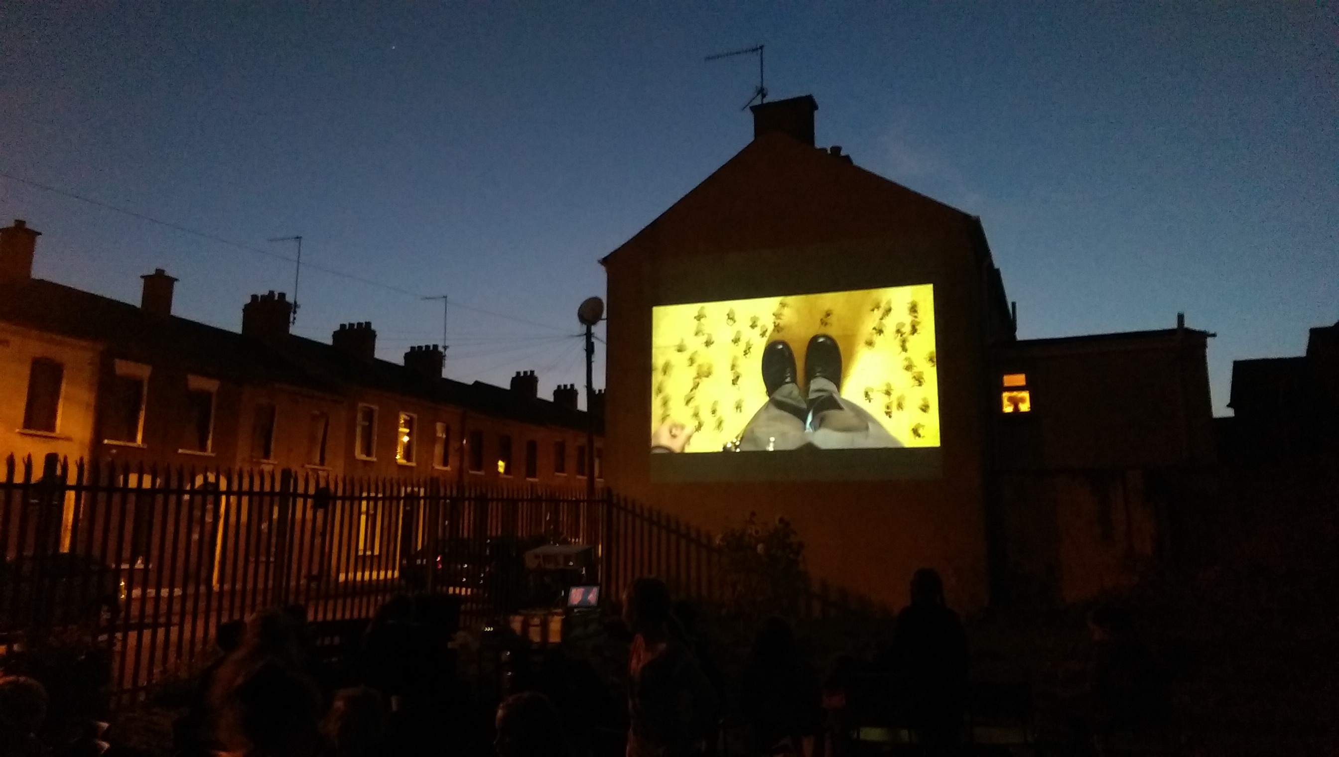 Night at the Museum at New Lodge Community Garden